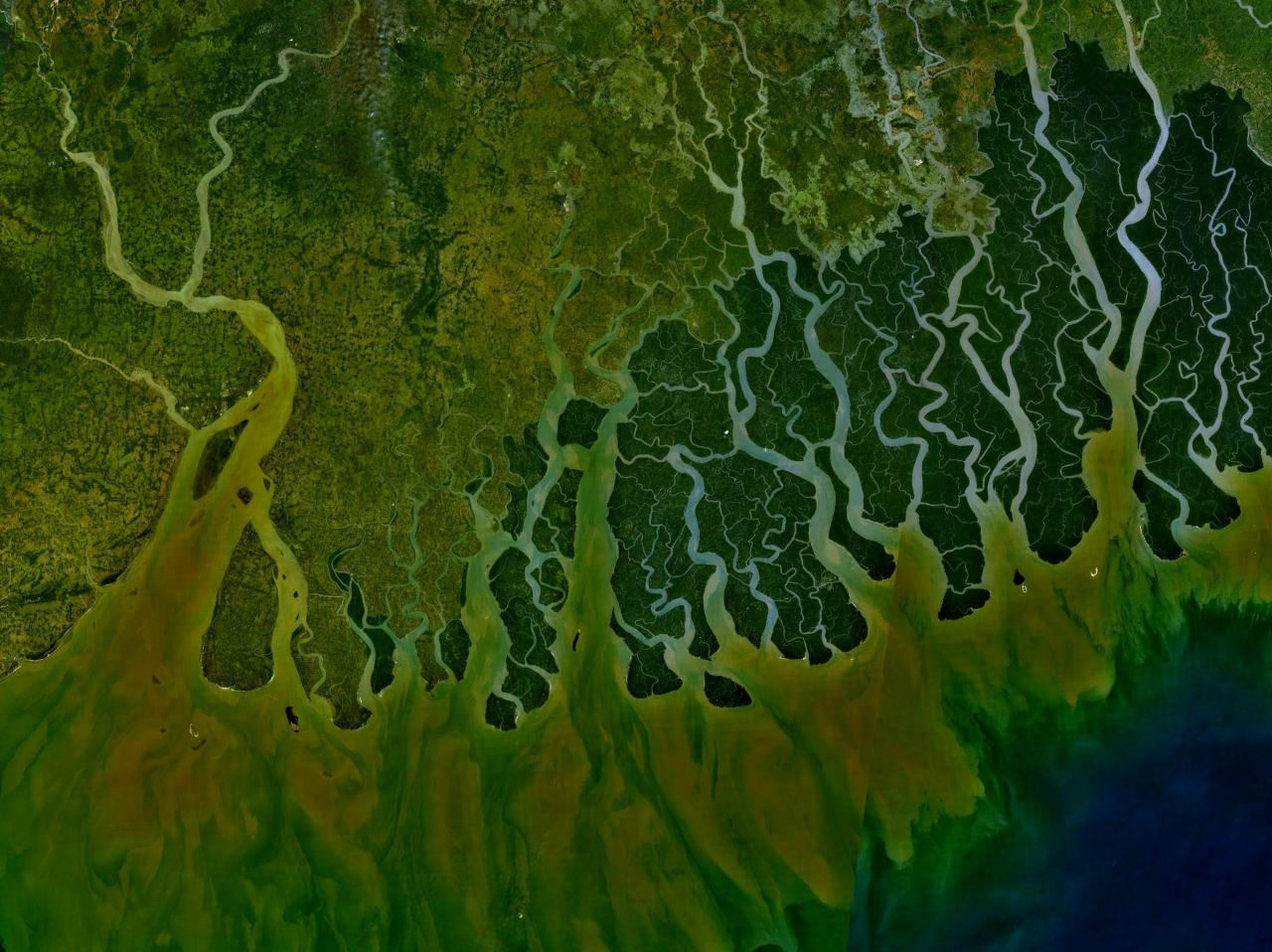 The Ganges river delta in Bangladesh and India. Satellite view. The broad river on the left is the Hooghly River.